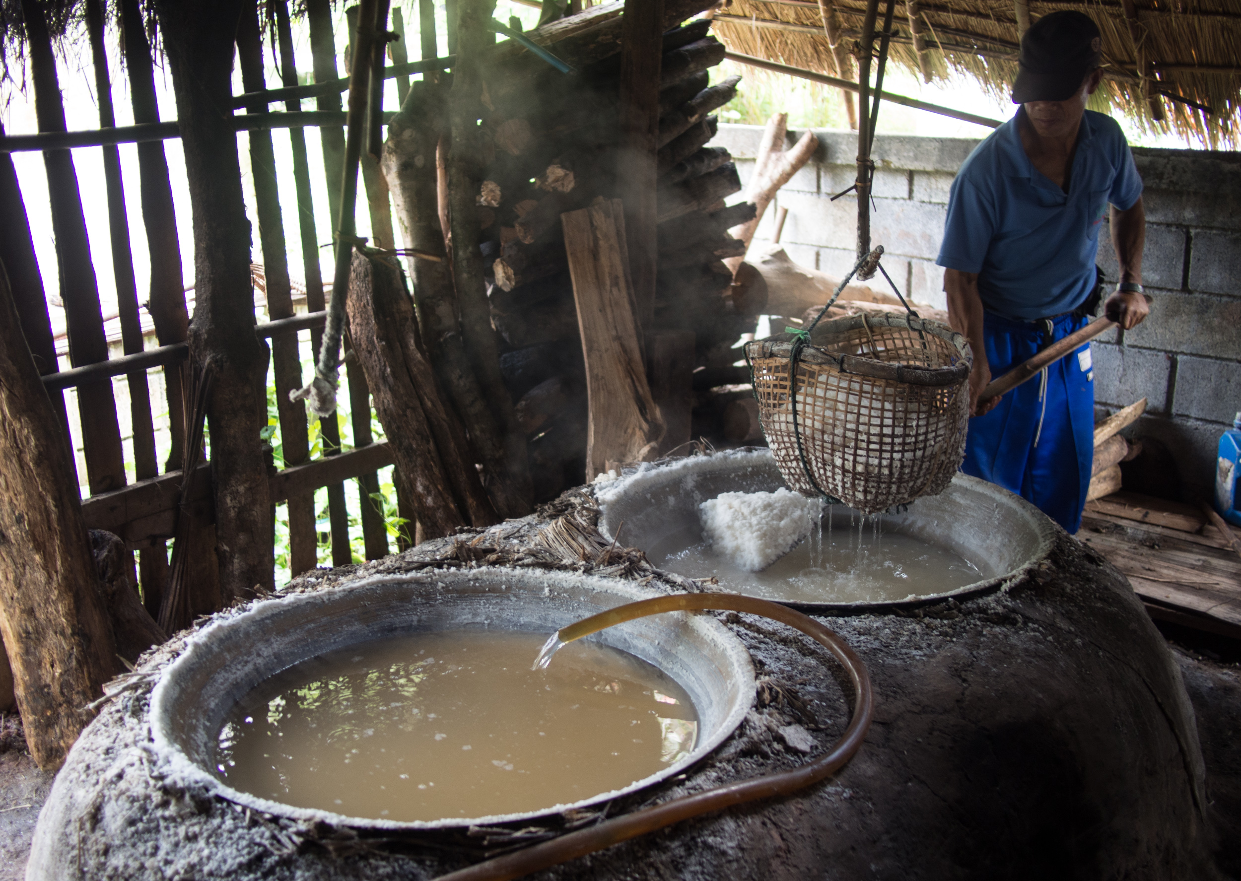 Open pan salt making in the town of Bo Kluea (Thai script: บ่อเกลือ; lit. "salt well"). While raking out the salt from the last pan, the first pan is filled again with fresh brine from the salt wells.